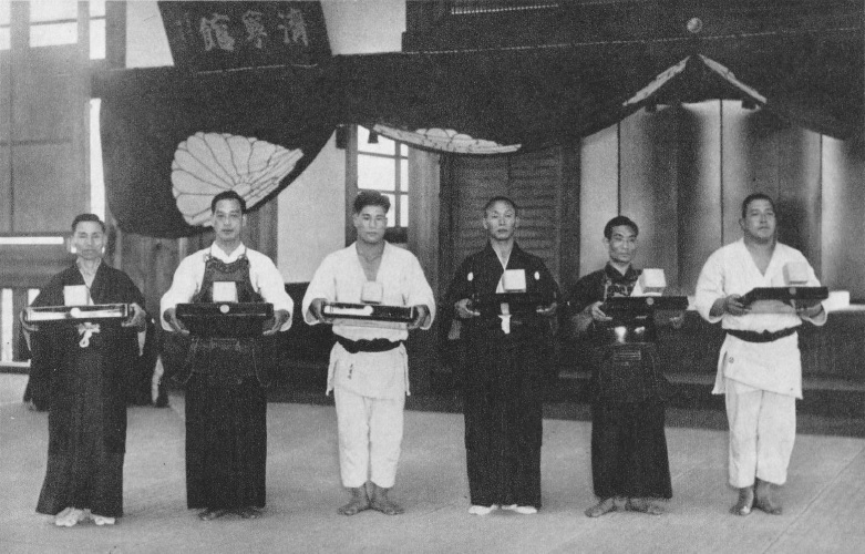 Winners of Shōwa Tenran Jiai in 1940. From left to right : HARO Isuke (Kyūdō), No info (Kendo), Masahiko Kimura (Judo), MAKITA (Kyūdō), No info (Kendo), Isamu Fujiwara (Judo).